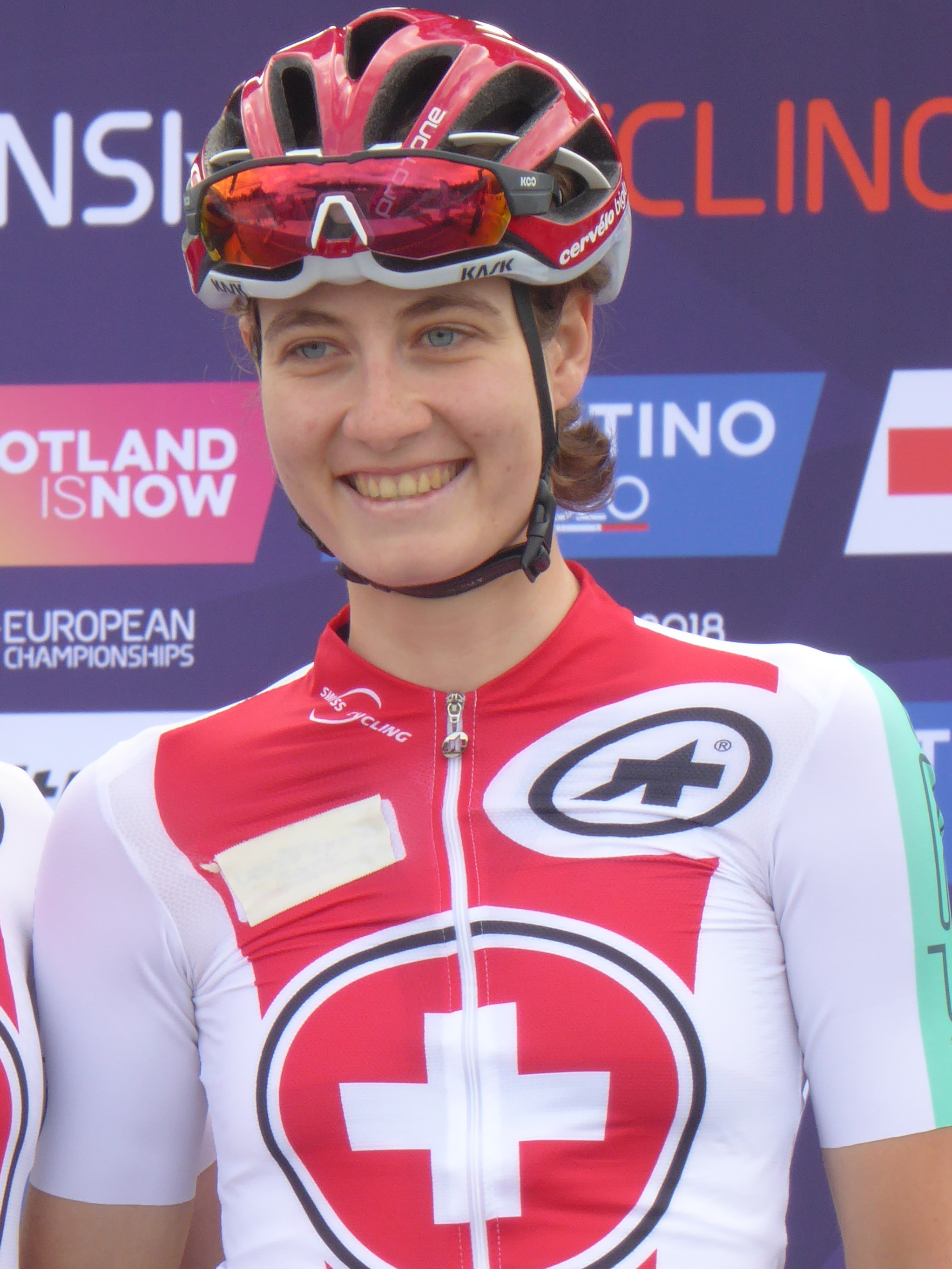 Nicole Hanselmann (Switzerland), prior to the women's road race at the 2018 UEC European Road Cycling Championships in Glasgow.